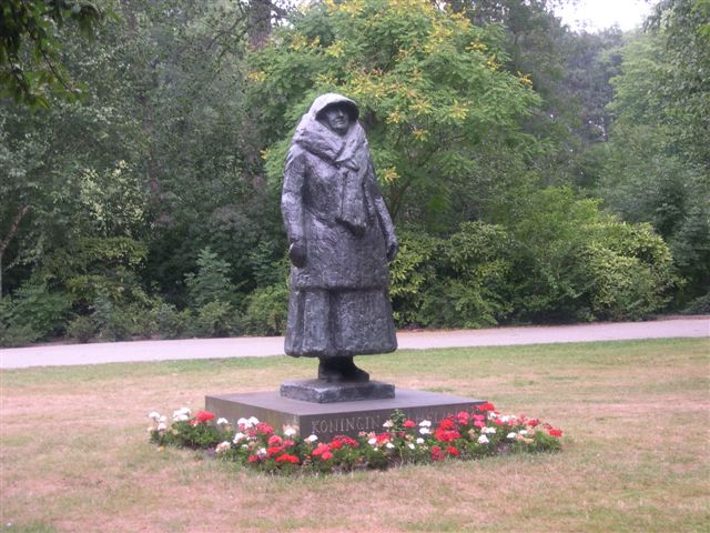 Statue of Queen Wilhelmina of The Netherlands in Wilhelminapark Utrecht. Made by Mari Andriessen in 1968.